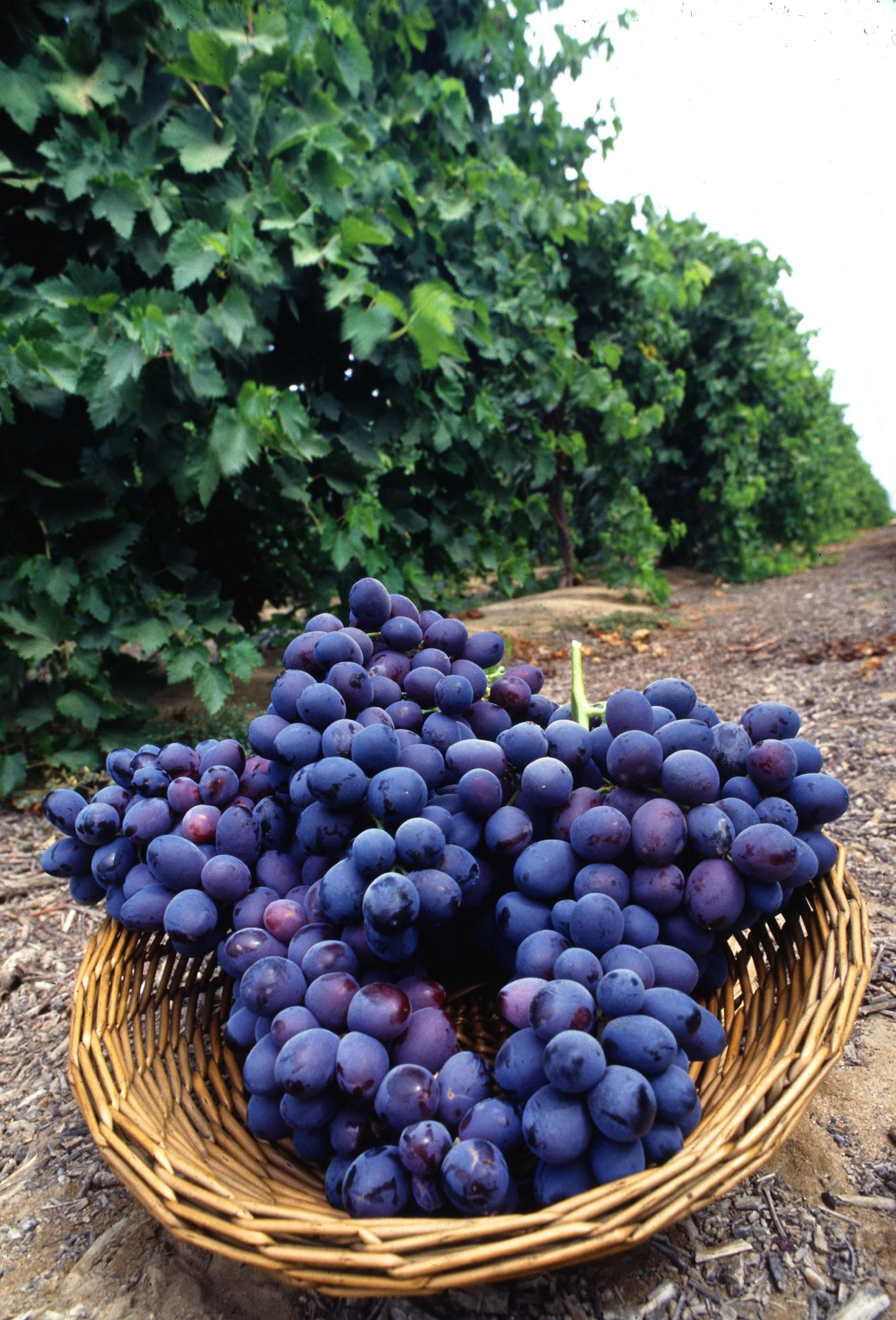 Image title: Fresh purple grapes Image from Public domain images website